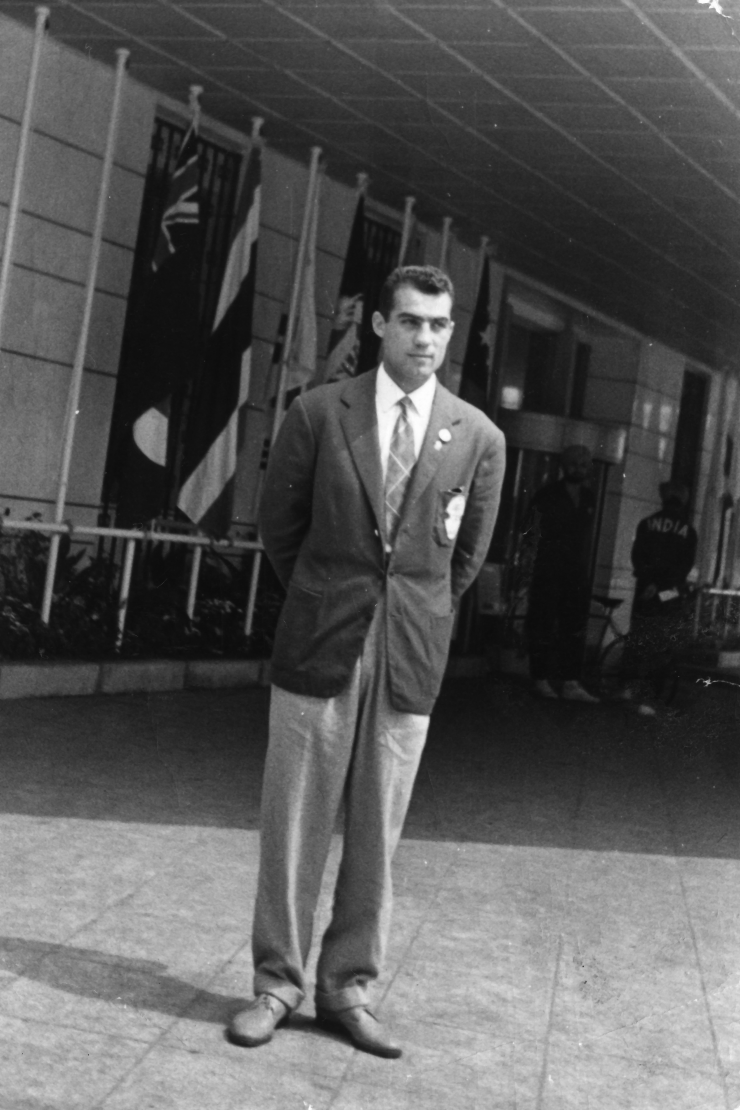 Hassan Pakandam, member of Iran National Boxing Team in the 60 kg. division, Third Asian Games, Tokyo, Japan, 1958